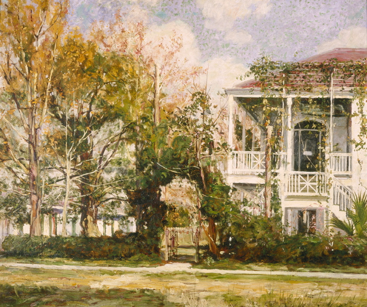 Woodward House, Lowerline and Benjamin Streets 1899; painting by William Woodward